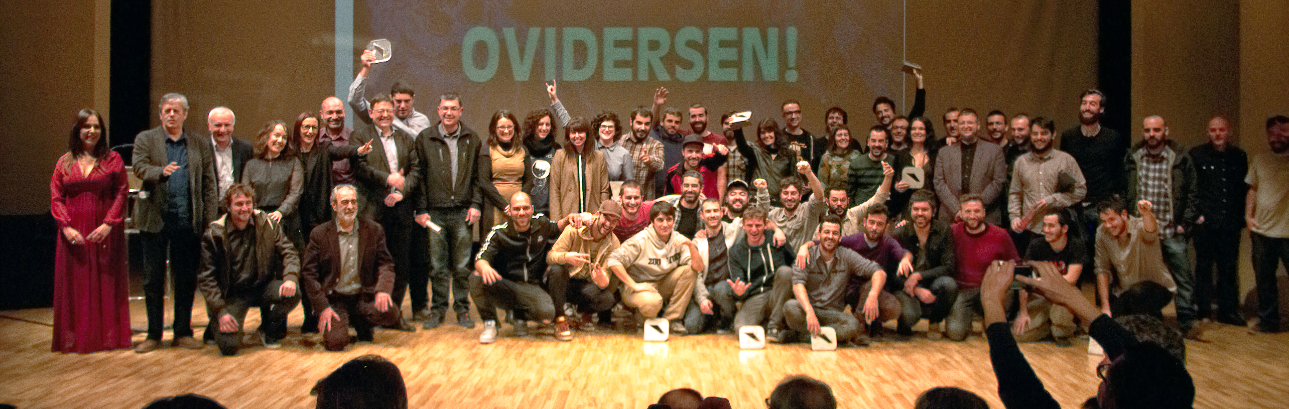 winners of the 10th Premis Ovidi Montllor in Valencia (capital), including Aspencat, Clara Andrés, Mara Aranda, Obrint Pas, Viasona and Zoo.